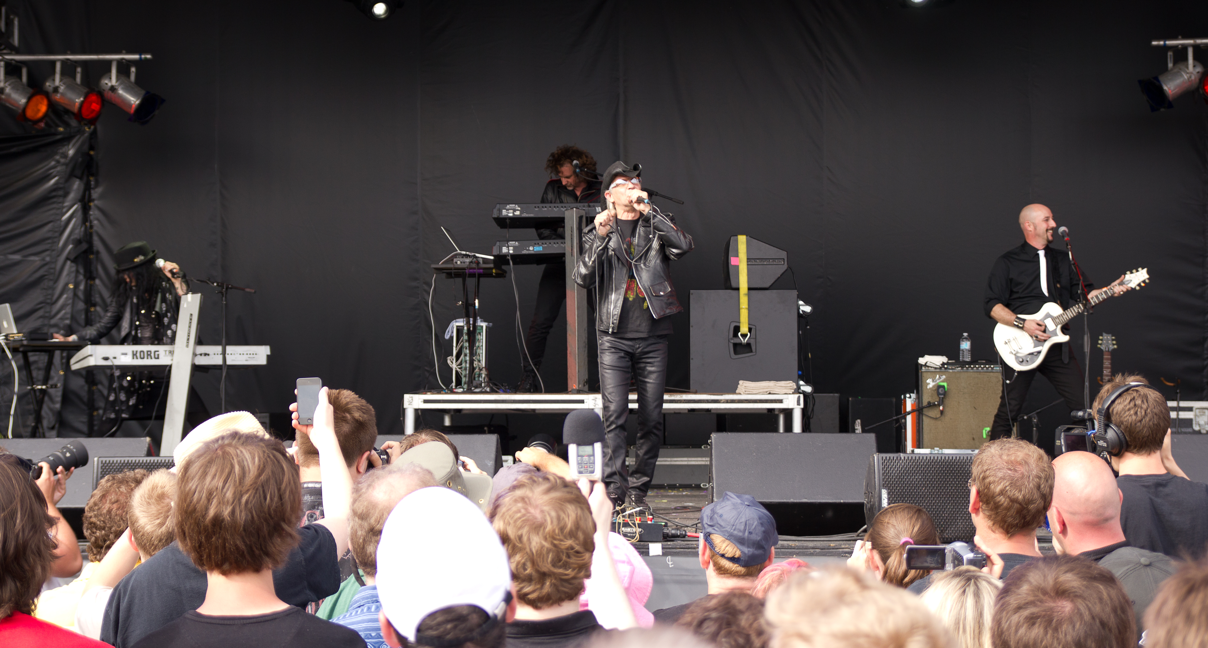 Men Without Hats performing at the Burlington Music Festival